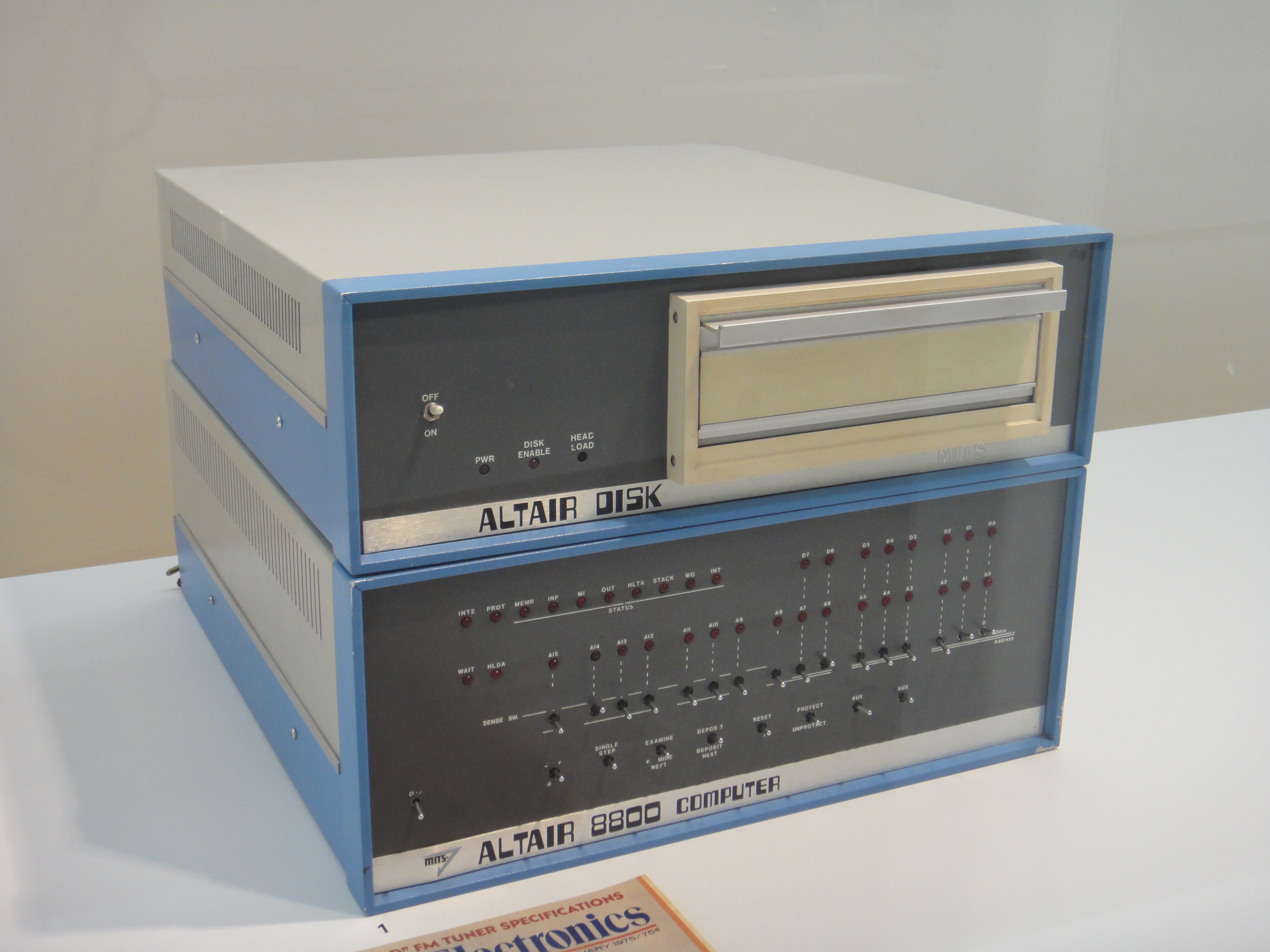 Altair 8800 computer